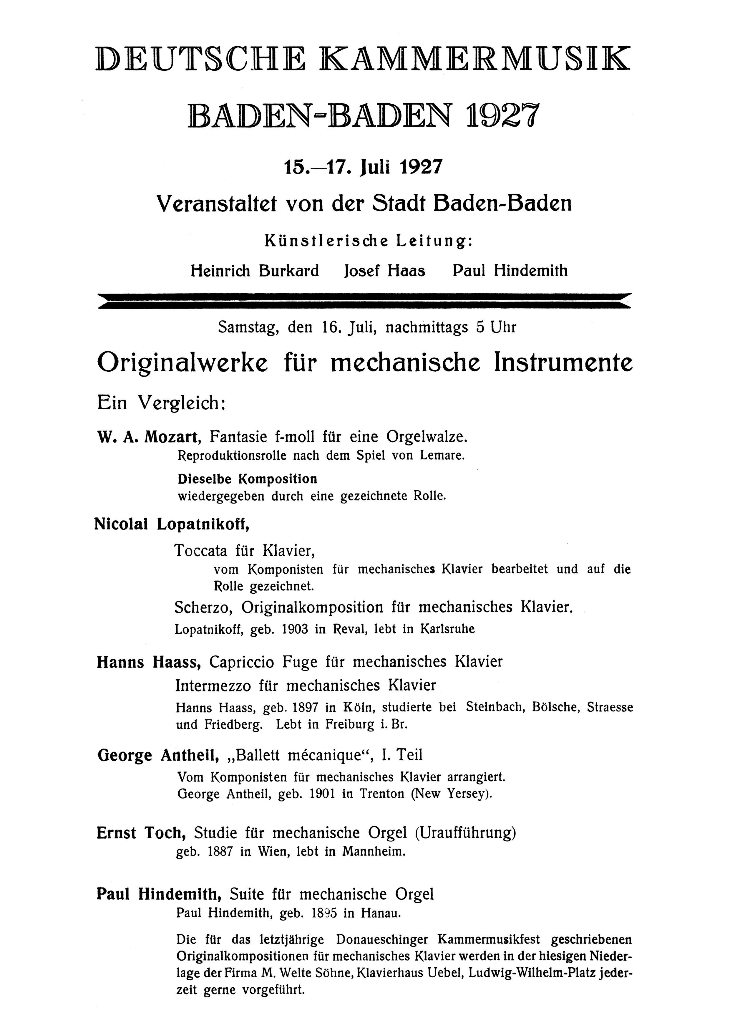 Concert announcement from 1927